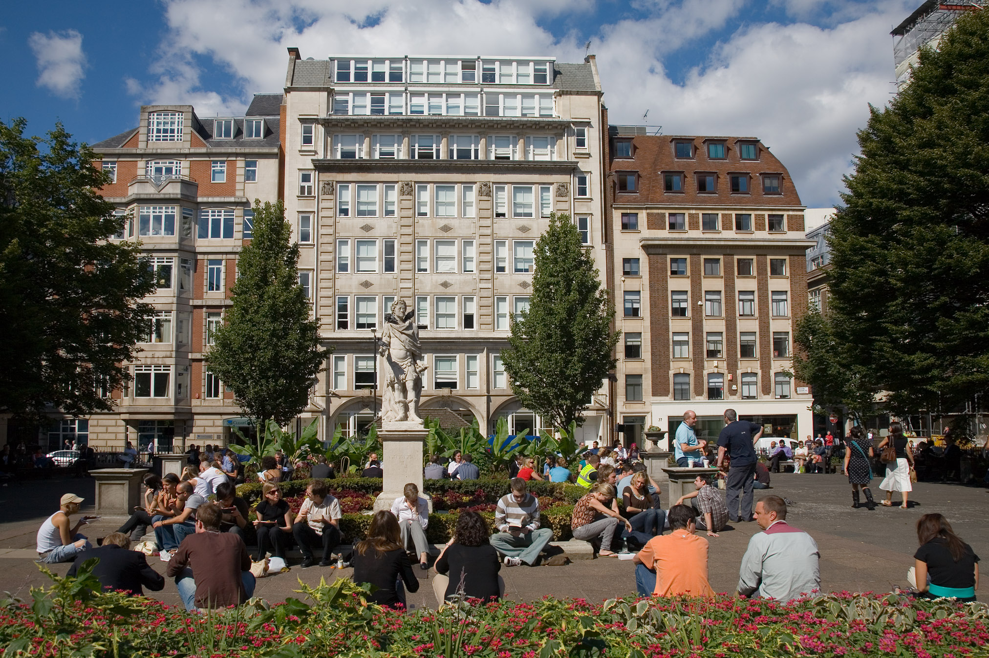 Looking north on Golden Square in Soho, London. Taken by myself with a Canon 5D and 24-105mm f/4L IS lens.